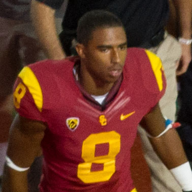 George Farmer after a game in the 2012 USC Trojans season.